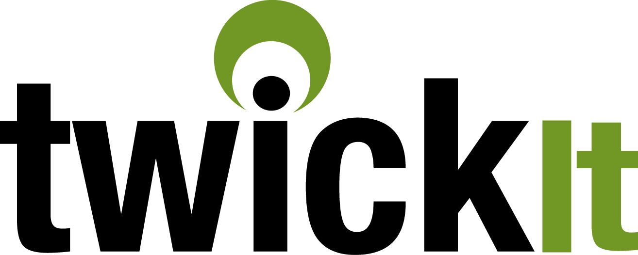 Twick.it logo